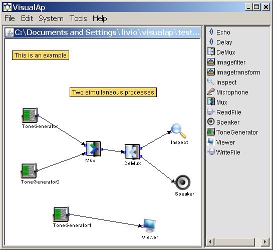 screenshot from software VisualAp